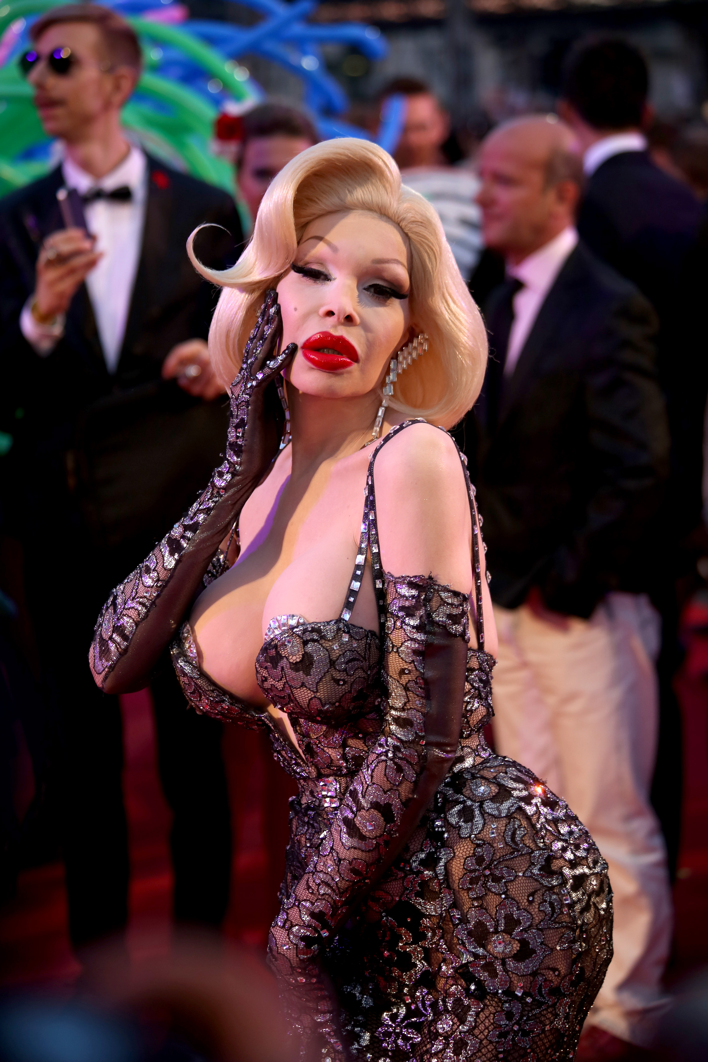 Life Ball 2014: Amanda Lepore on the red carpet on the square in front of the Rathaus (Town Hall) of Vienna, Austria.